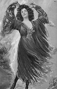 Elsie Janis, Cover, Theatre Magazine March 1917. Original art based upon the photo taken by Ira L. Hall of New York City.